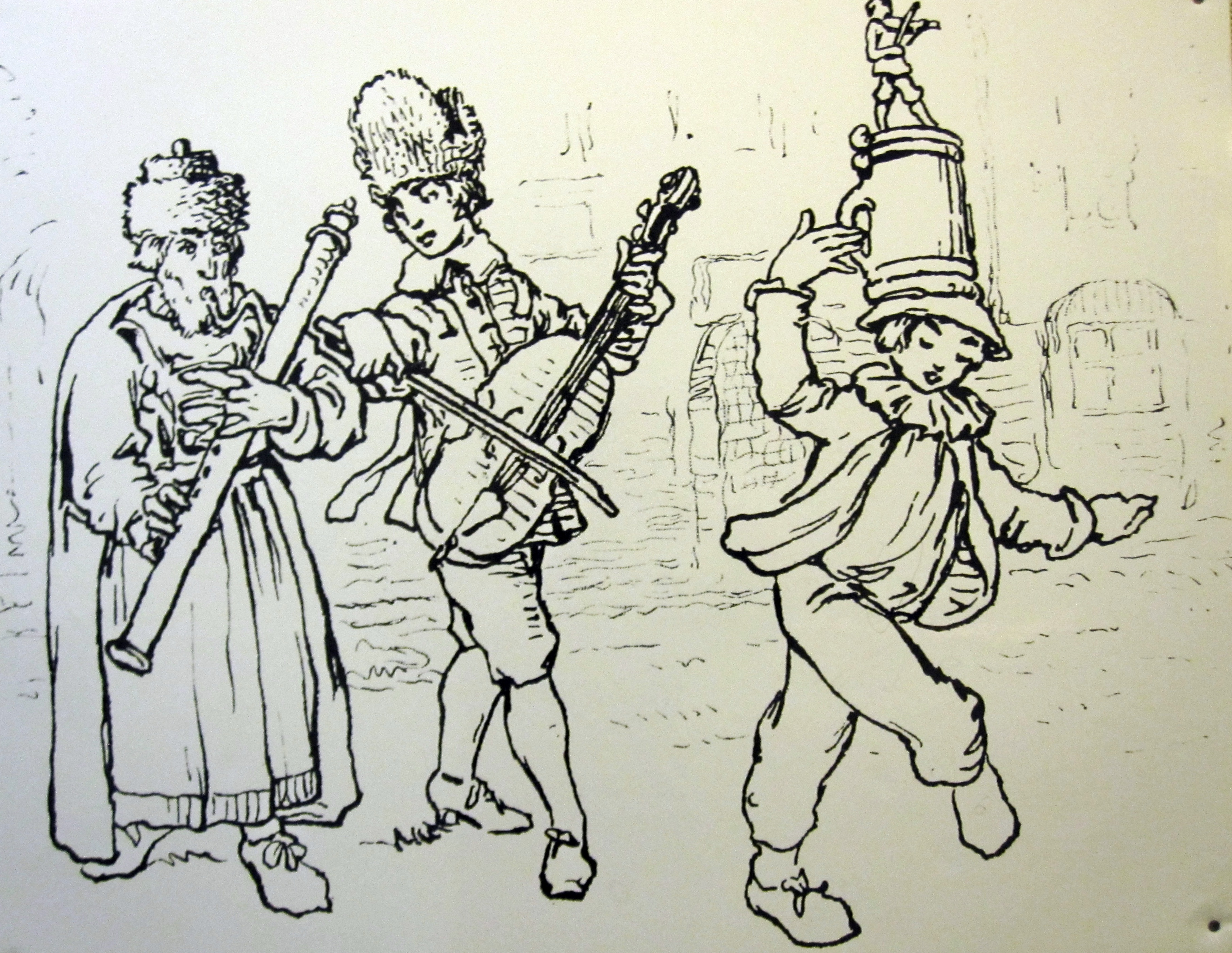 This is a photo of an exhibit at the Diaspora Museum, Tel Aviv - Beit Hatefutsot. The Note says: Jewish musicians Prague, Czechoslovakia, 1741 From : Hermann, J. Telge, and Z. Winter The prague ghetto, 1902